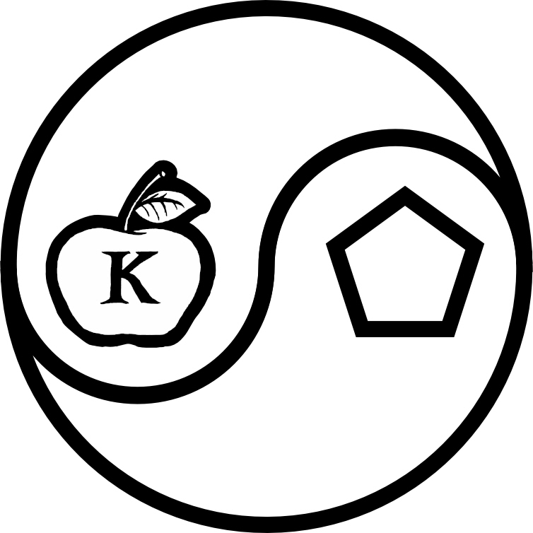 Discordian version of the Yin and Yang dynamic balance. In this case the two principles are Hodge and Podge, but they pretty much mean roughly the same as Yin and Yang with some twists.